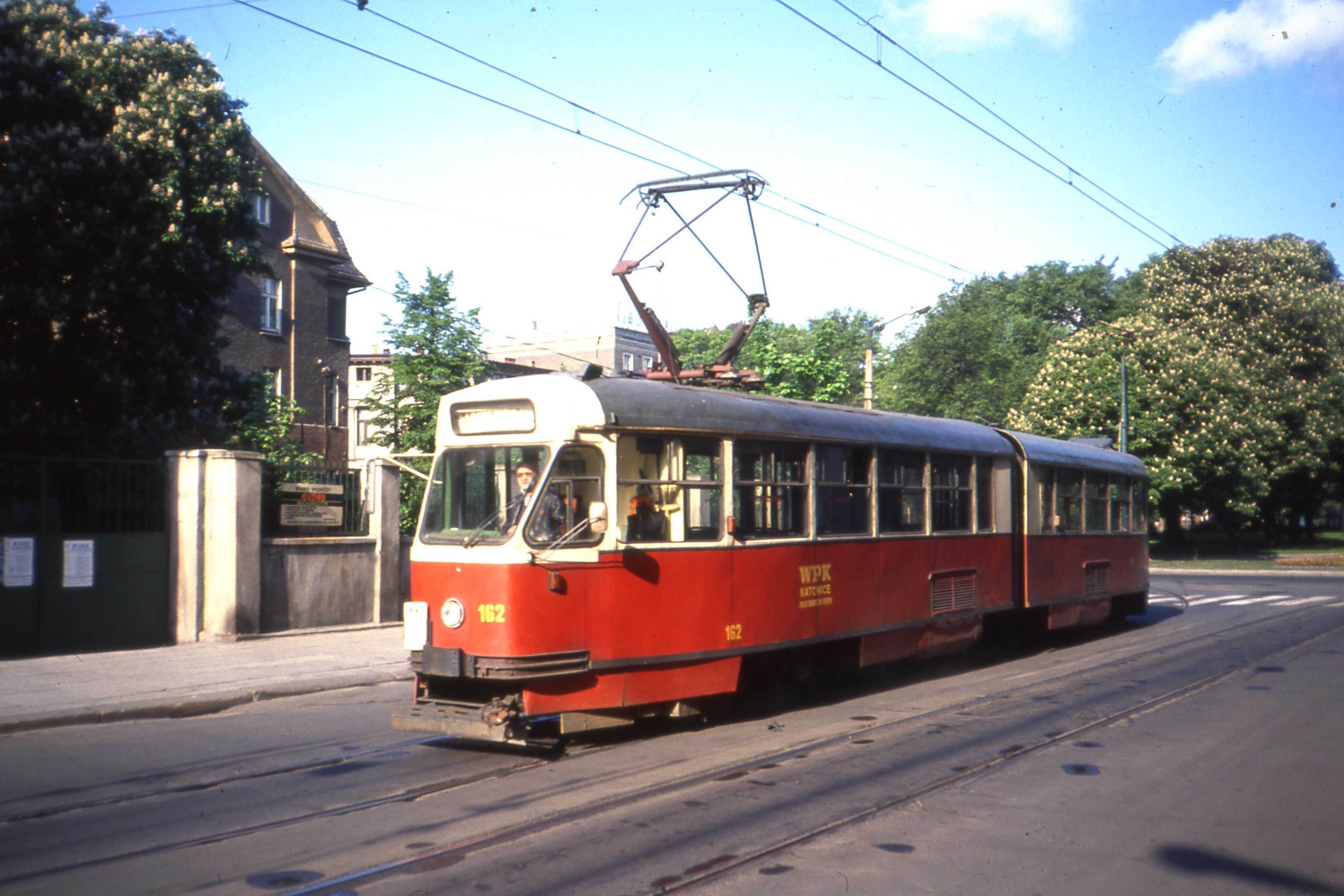 Konstal 102Na tram in Katowice. No 162 is not listed in that incomplete fleetlist, but probably dates from 1970.